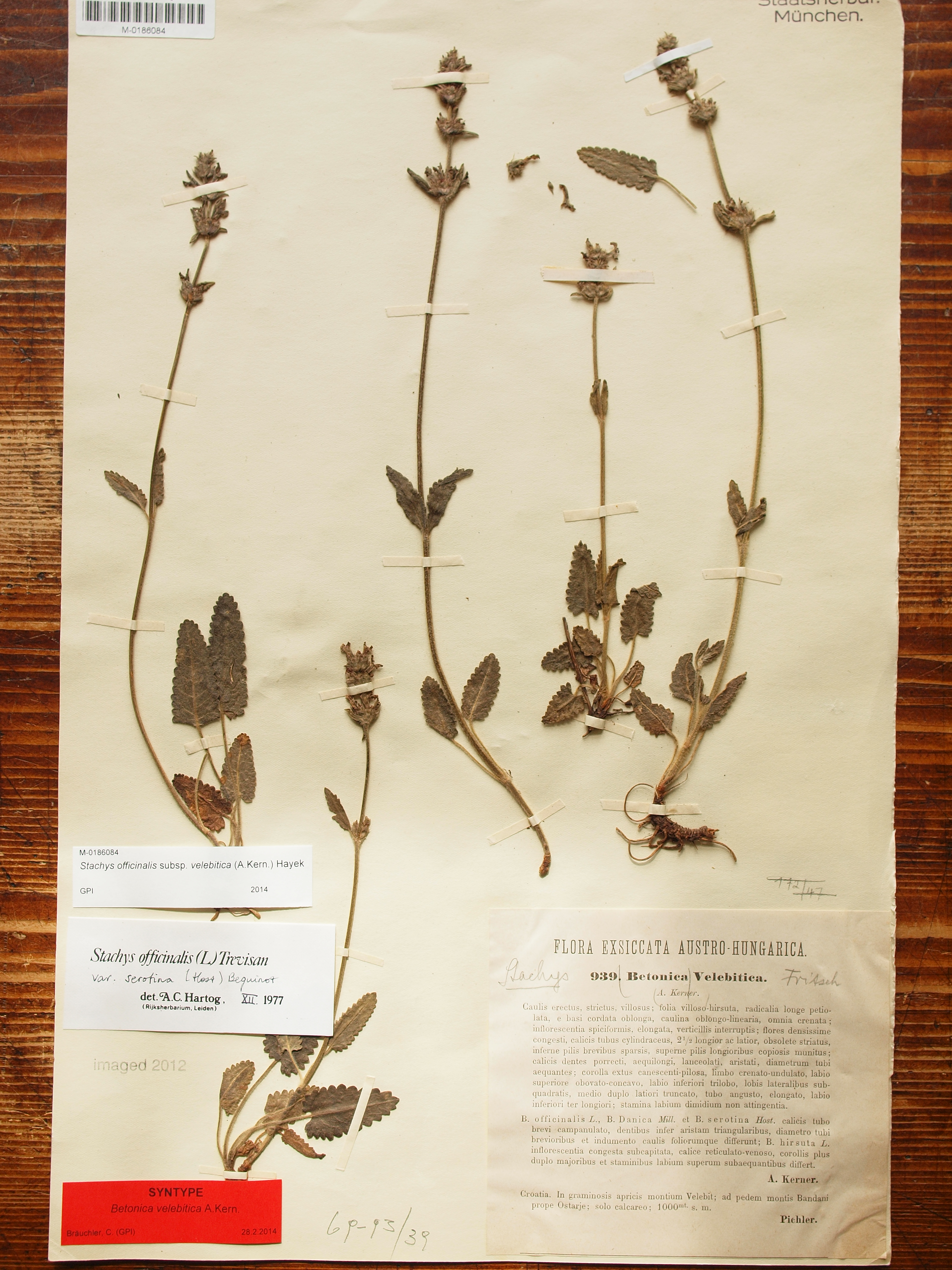 Syntype Betonica velebitica A. Kerner Bayerische Botanische Staatssammlung leg Pichler det. C. Bräuchler